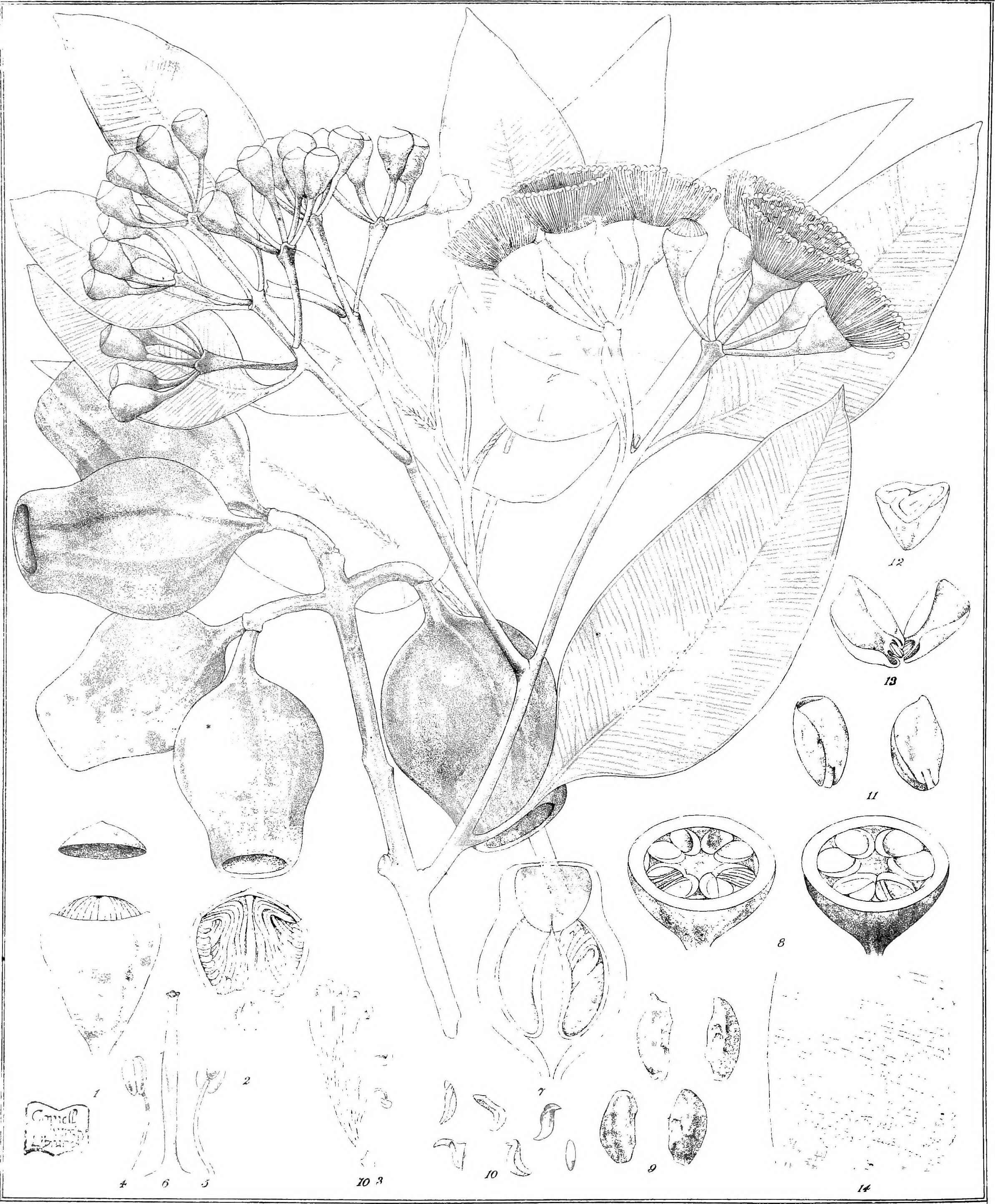 Title: Eucalyptographia. A descriptive atlas of the eucalypts of Australia and the adjoining islands; Year: 1879 (1870s) Authors: Mueller, Ferdinand von, 1825-1896 Subjects: Eucalyptus; Botany Publisher: Melbourne, J. Ferres, Govt. Print; (etc. ,etc. ) Text Appearing Before Image: ' Text Appearing After Image: Eucalyptus calophylla. Brown.